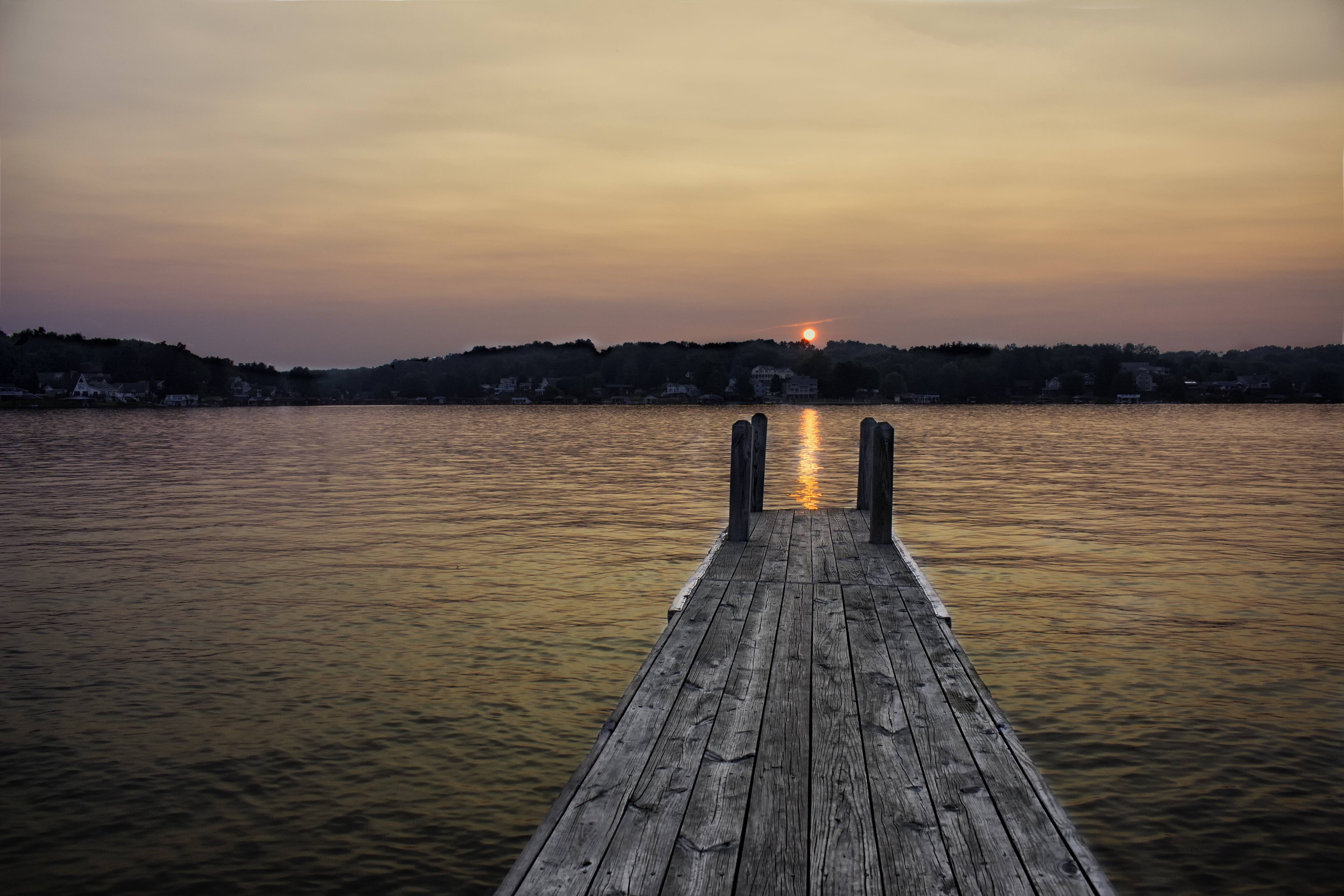 Looking west over the southern end of Apple Valley Lake just northwest of Howard in western Howard Township, Knox County, Ohio, United States.